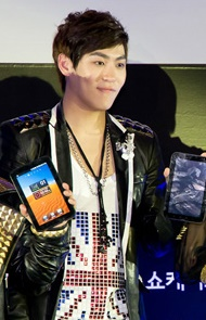 John Park at the Samsung's Galaxy Tab on Jan 6, 2011 from acrofan